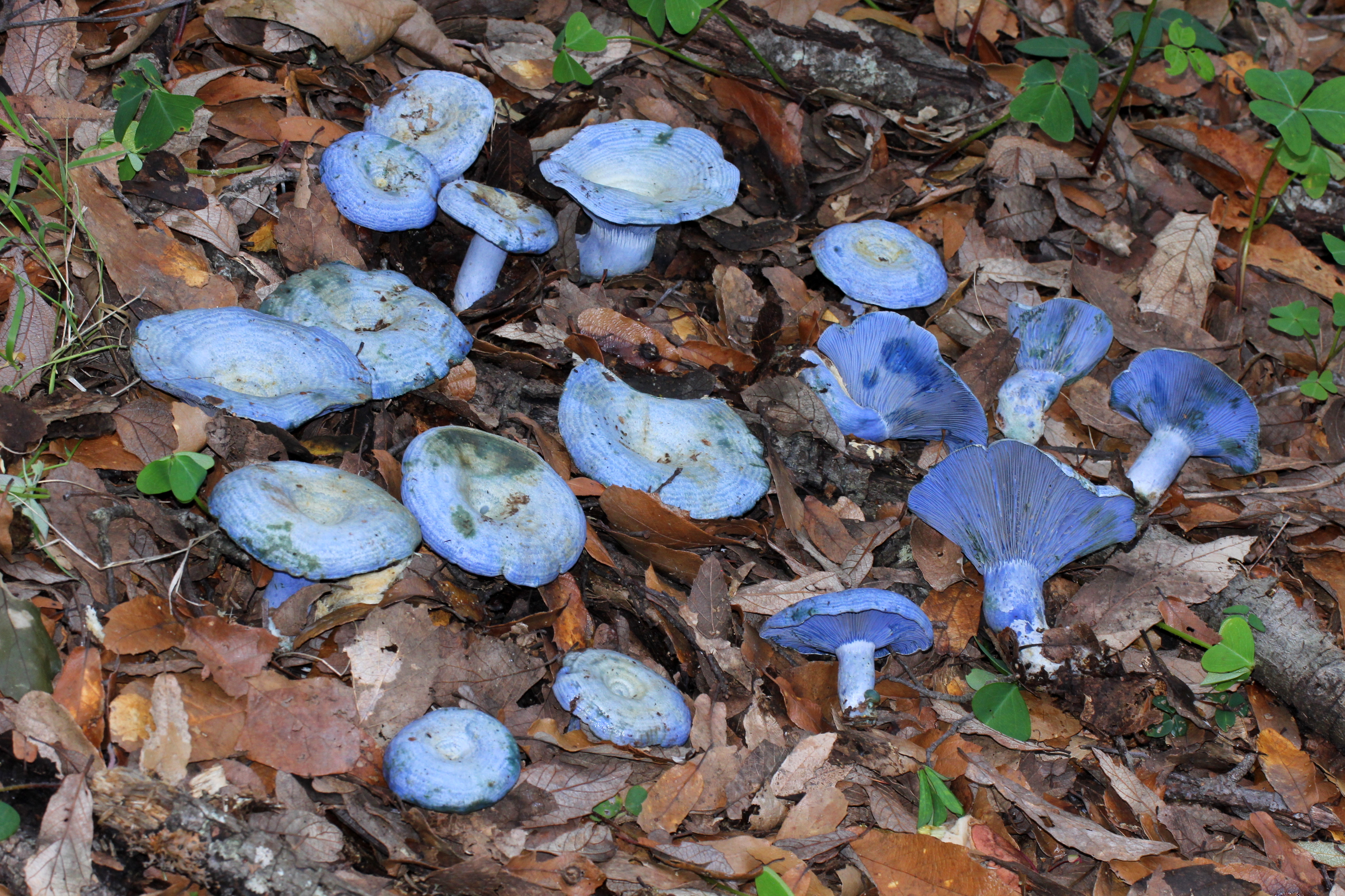 Lactarius indigo (Schwein.) Fr. Image location: Sierra de Quila, Jalisco, Mexico Under oak. Recognized by sight For more information about this, see the observation page at Mushroom Observer.